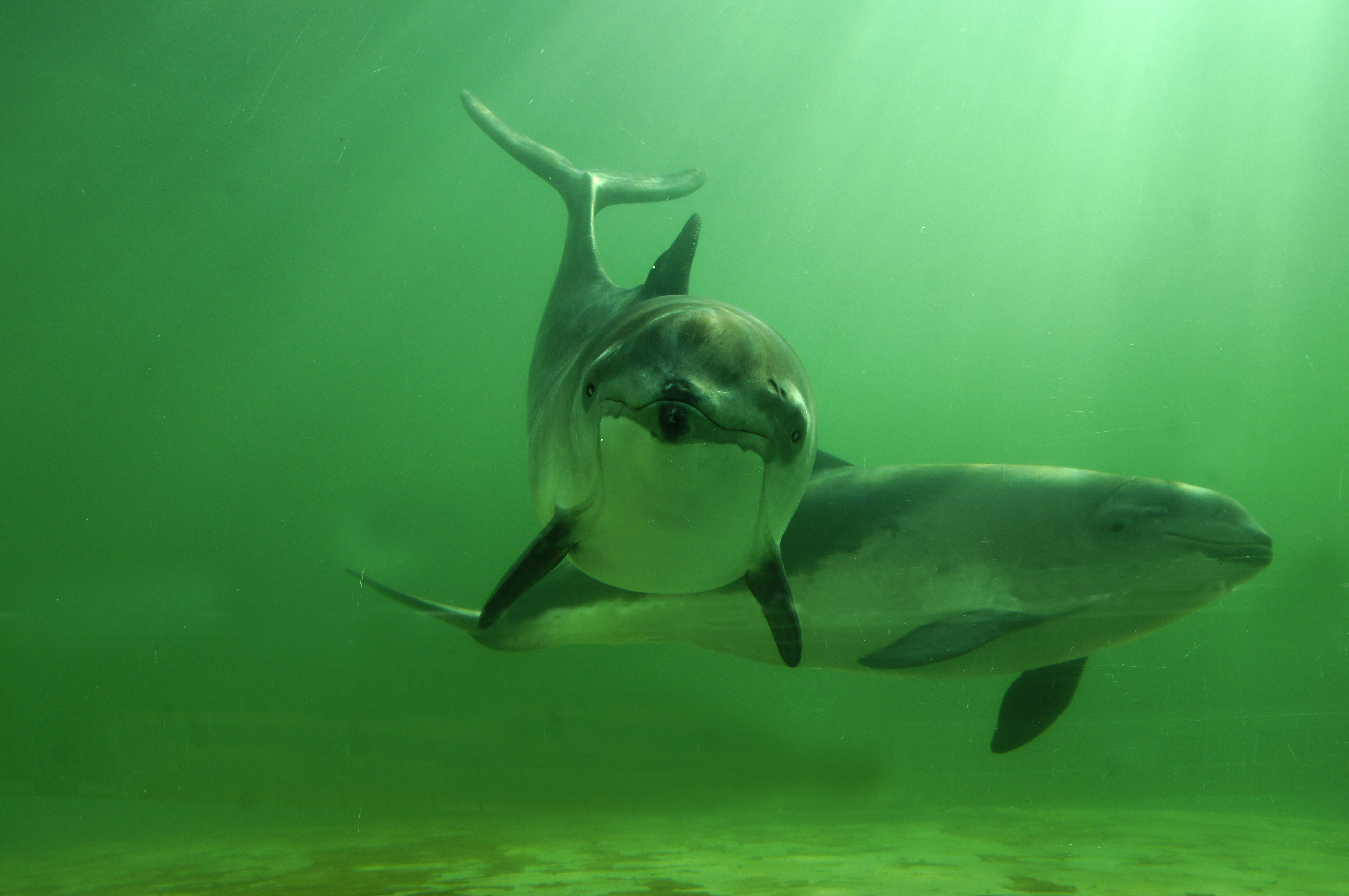 harbour porpoises Michael & Jose in 2012, Ecomare